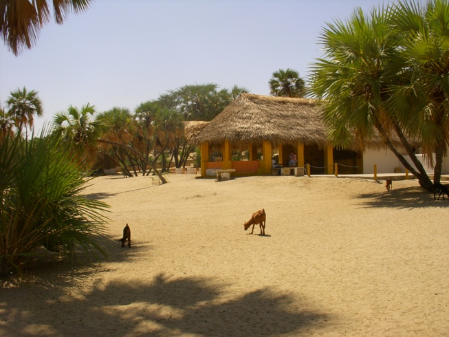 View of Eliye Springs Hotel Restaurant on Lake Turkana